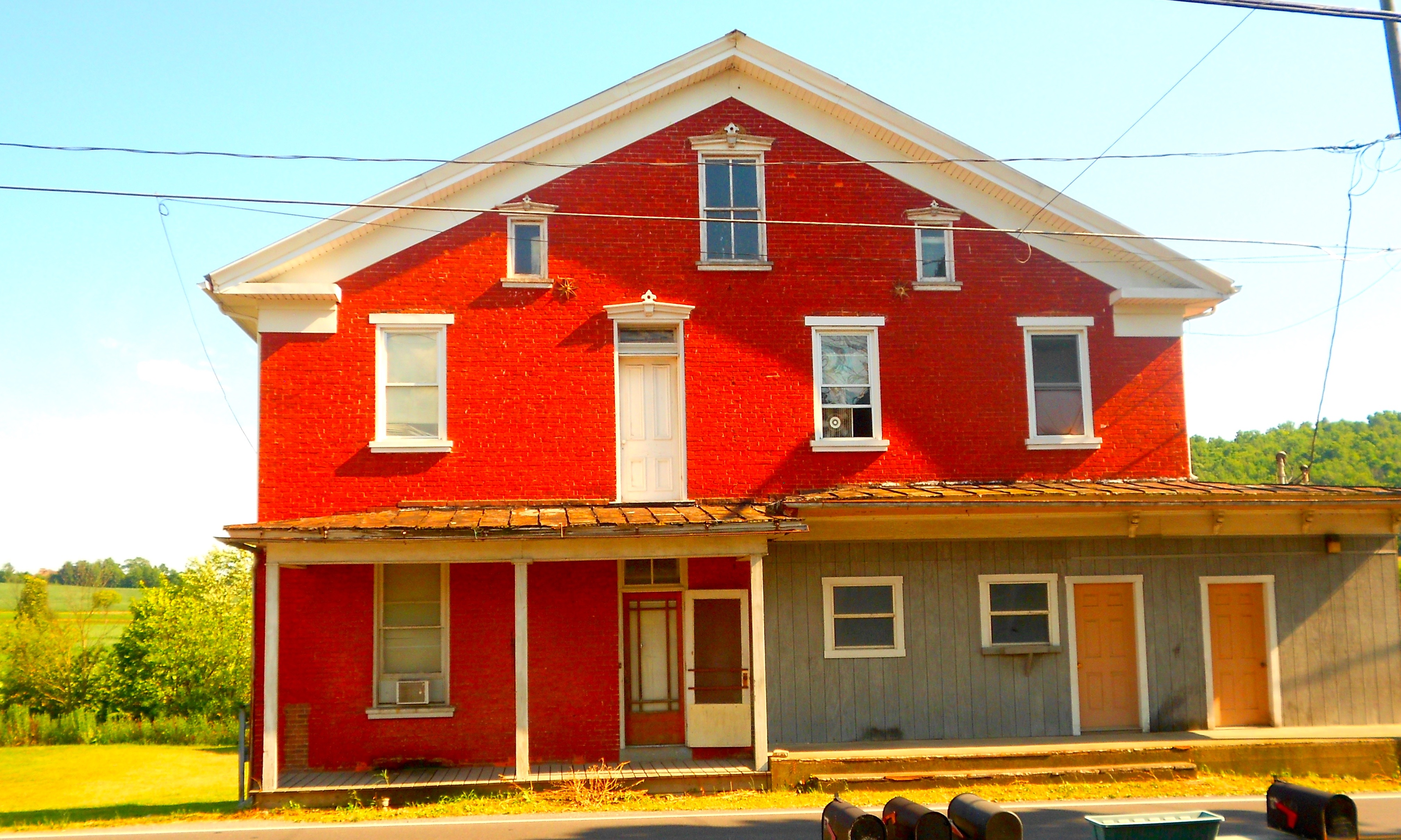 Store or commerical building in Evendate, Juniata County, Pennsylvania